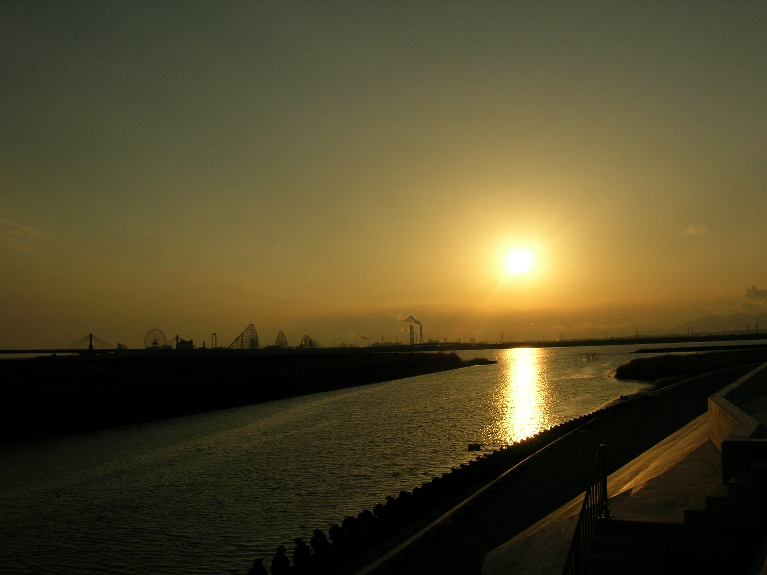 Nabeta River (Nabeta-gawa) estuary. Loc: Kisosaki town, Kuwana District, Mie Prefecture, Japan. 鍋田川の河口（木曽川との合流部） 撮影場所 三重県桑名郡木曽岬町・源緑輪中